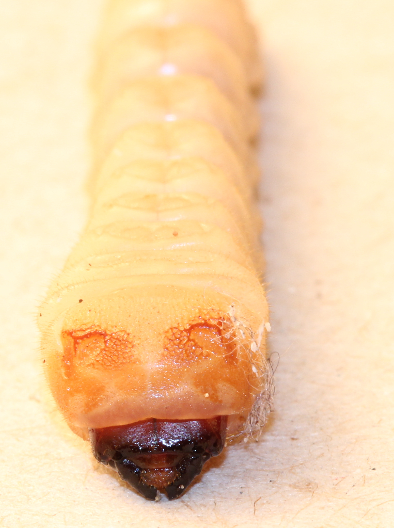 Larva of Phryneta spinator, a Southern African long-horned beetle, family Cerambycidae, Showing sclerotised epicranium; rest of body hardly sclerotised